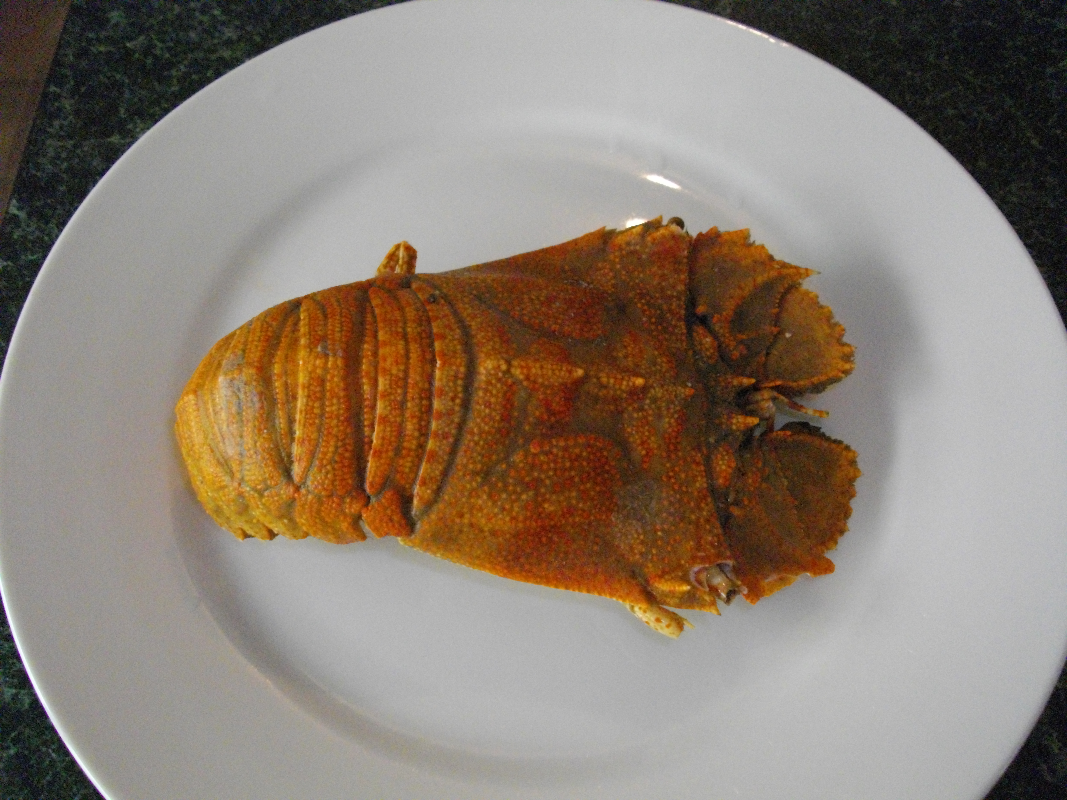 A whole, cooked, Moreton Bay Bug (a type of Slipper Lobster) on a dinner plate.